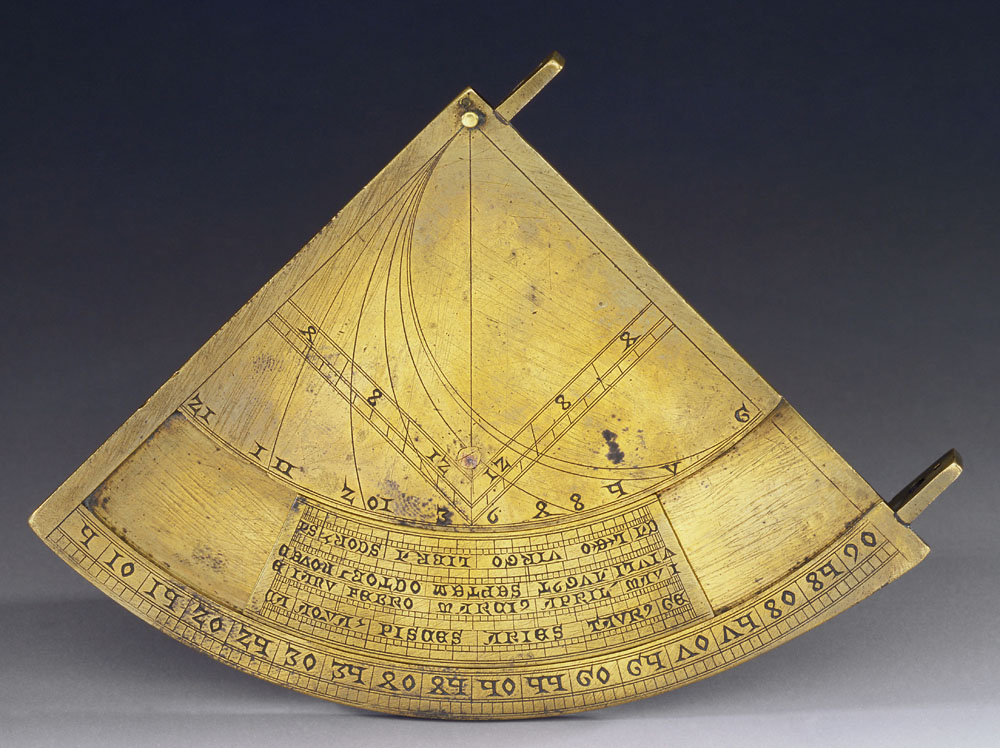 Author UnknownDescription